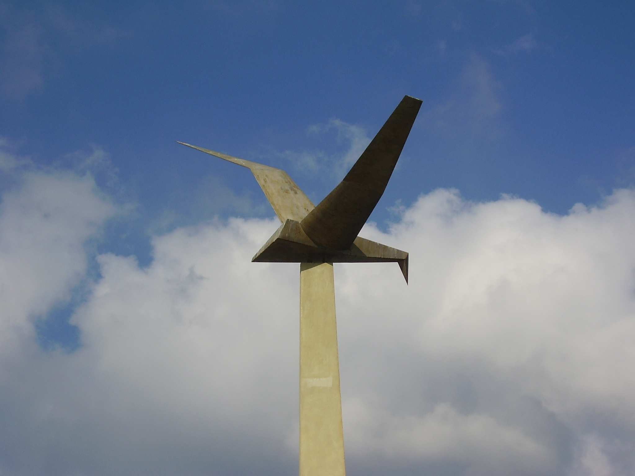 pilots independence war memorial by benjamin tammuz, in independence park in tel aviv אנדרטת הטייסים שפרינצק וסוקניק (ידין) מאת בנימין תמוז בגן העצמאות בתל אביב